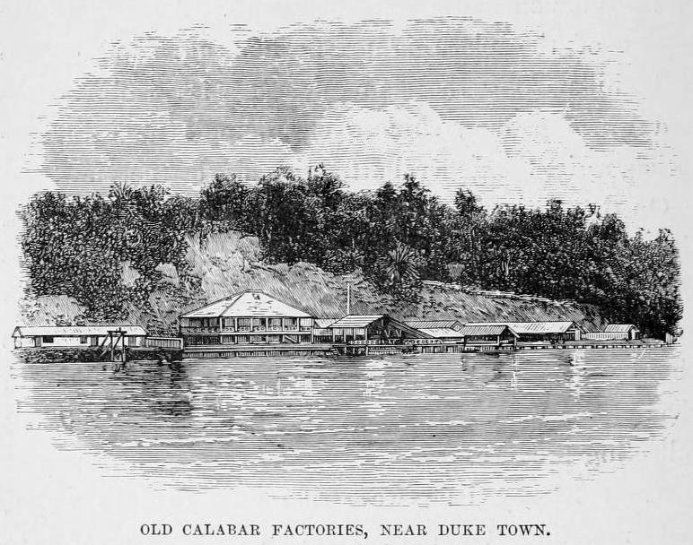 Pictures excerpted from HM Stanley's book "The Congo and the founding of its free state; a story of work and exploration (1885)"